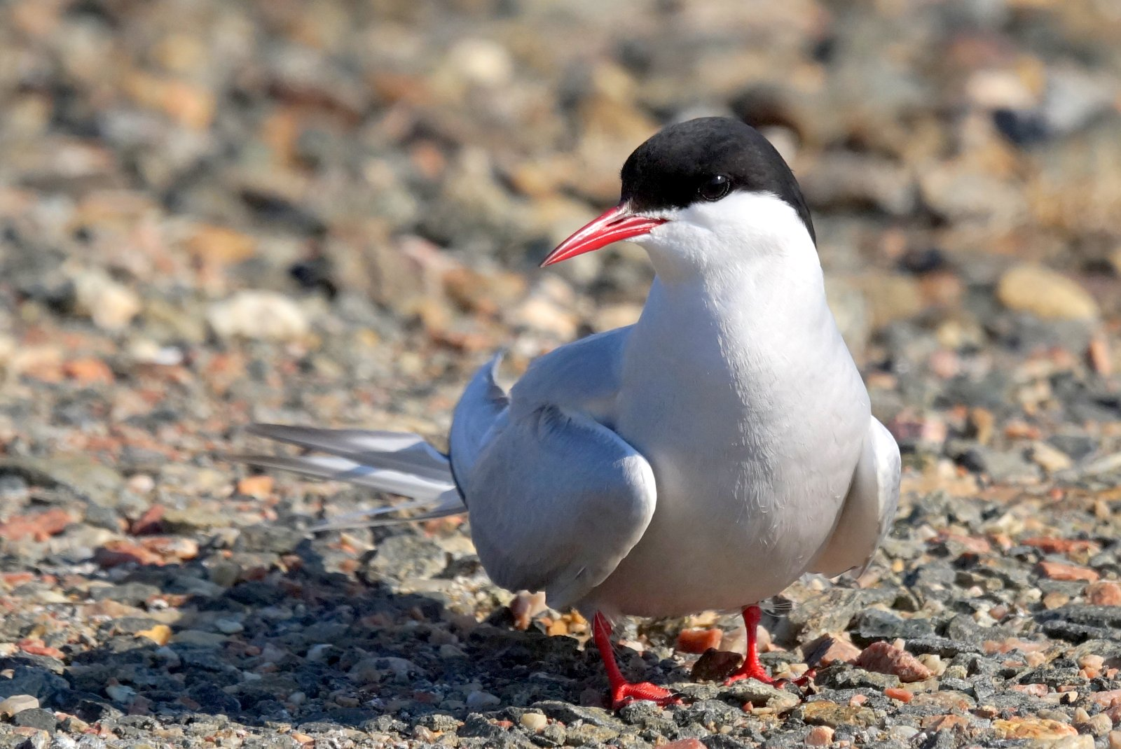 Arctic tern (Sterna paradisaea)( in Äkäslompolo, Kolari, Finland